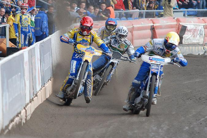 Tomasz Gollob (red helmet) in the fight against Rune Holta (yellow helmet) in the match Stal - Włókniarz.